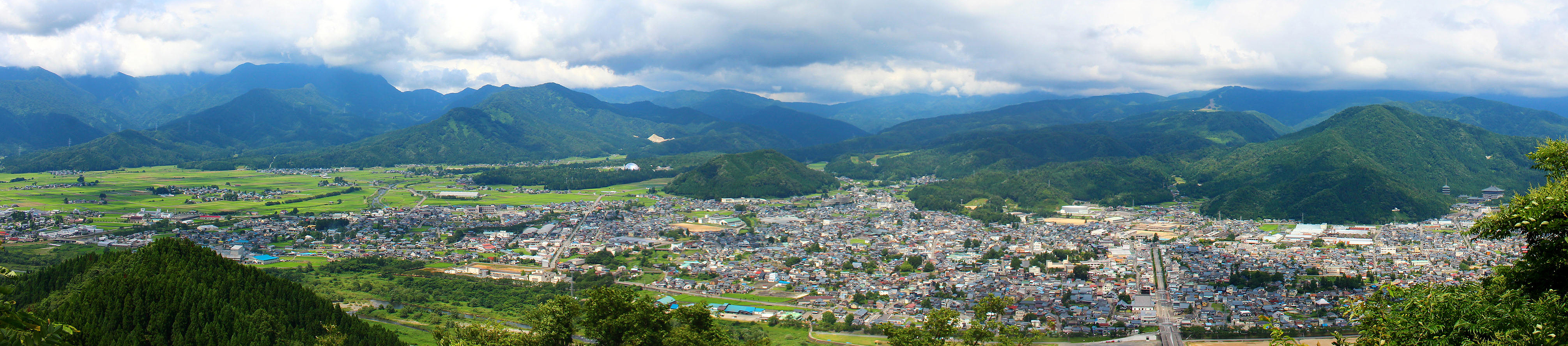 Downtown of Katsuyama city as seen from the West in Fukui Prefecture, Japan.